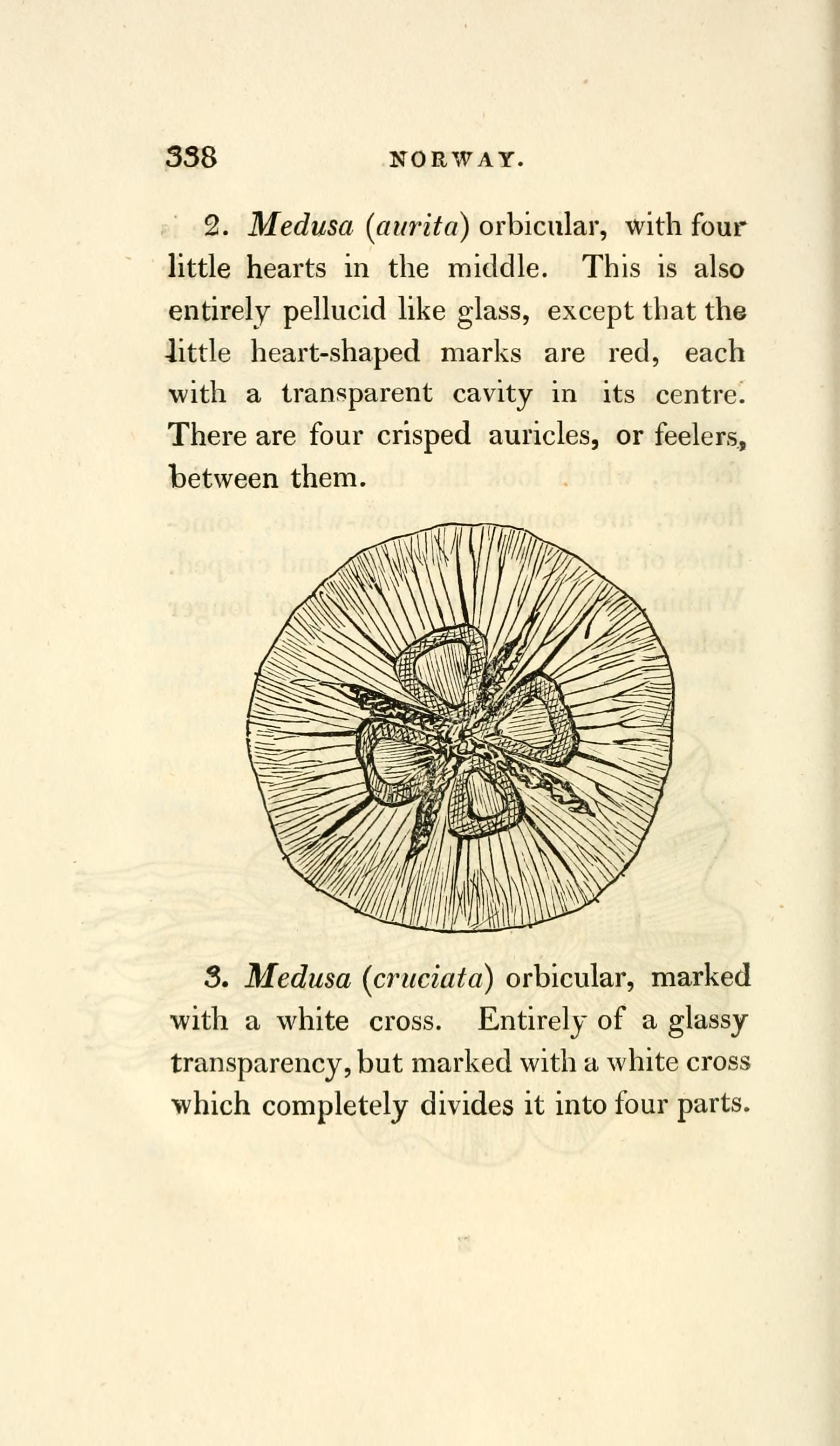 Lachesis lapponica; or, A tour in Lapland, now first published from the original manuscript journal of ... Linnaeus; by James Edward Smith ...